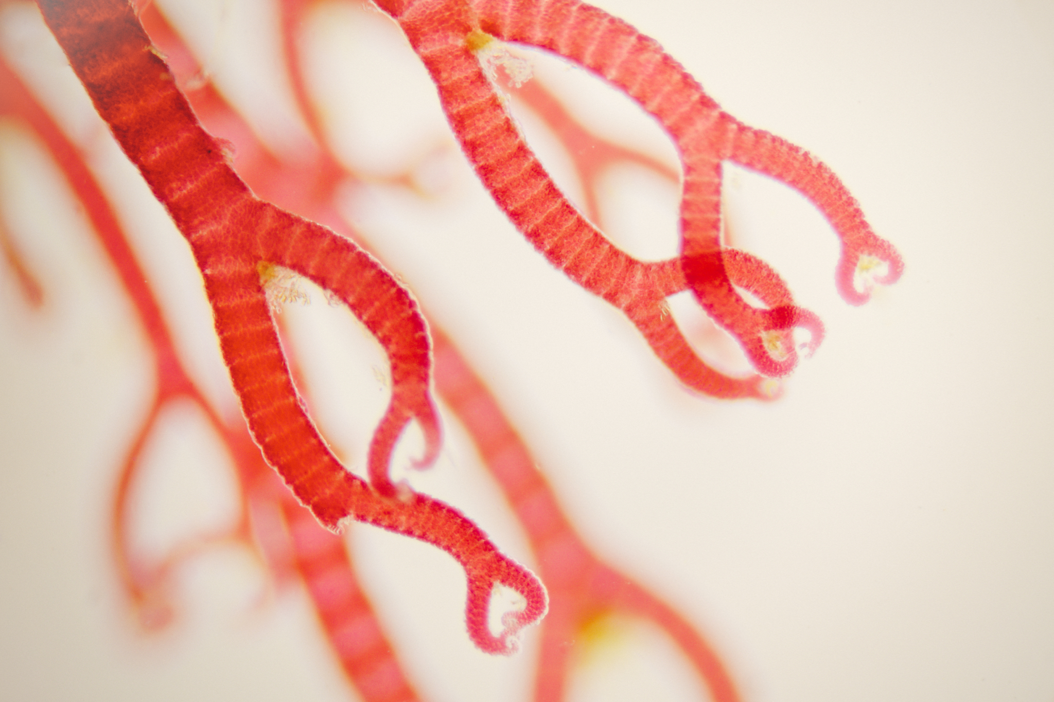 Ceramium, red algae (Rhodophyta)